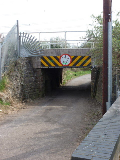 Caldicot: low bridge near the station, Data from Geograph: Description: This road is only a little dead end and there is a level crossing alongside which caters for anything but a standard car, the only kind of traffic that could cope with the 5' 9" headroom. ICBM: 51.584527261604, -2.7592701077133 Location: (about 1 km from) near to Rogiet, Monmouthshire/Sir Fynwy, Great Britain.